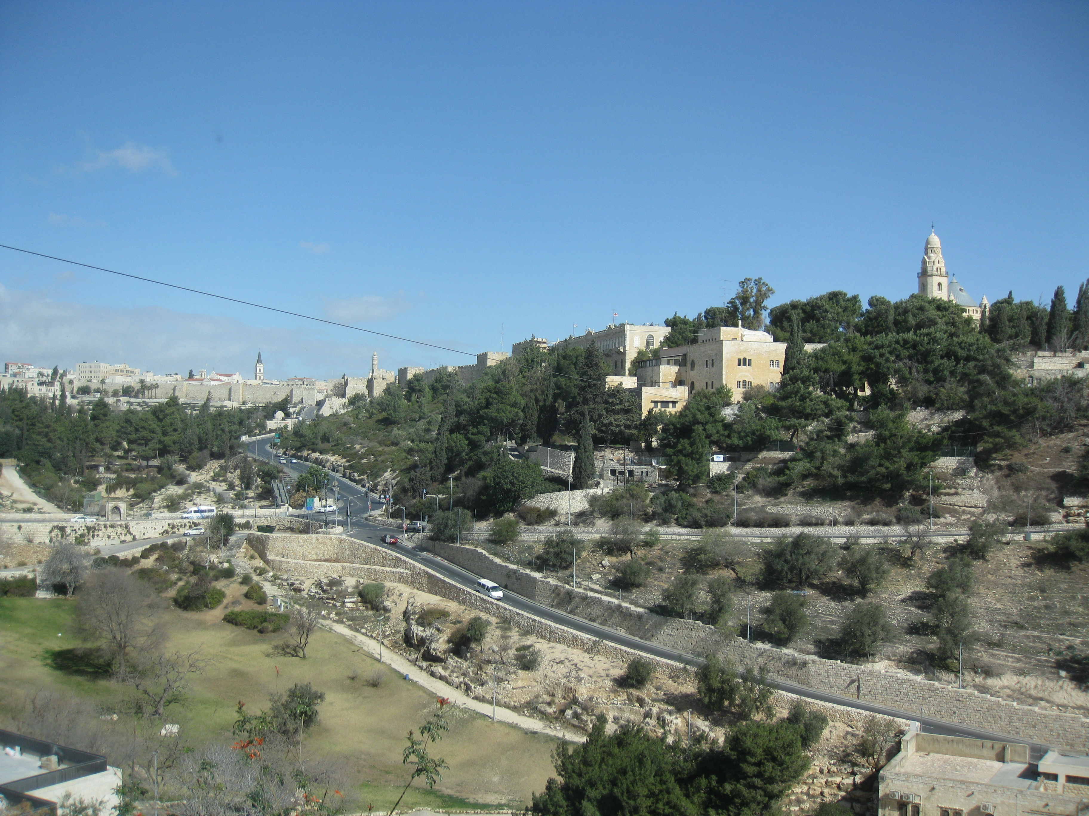 View of Mount Zion from the Mount Zion Hotel, Jerusalem